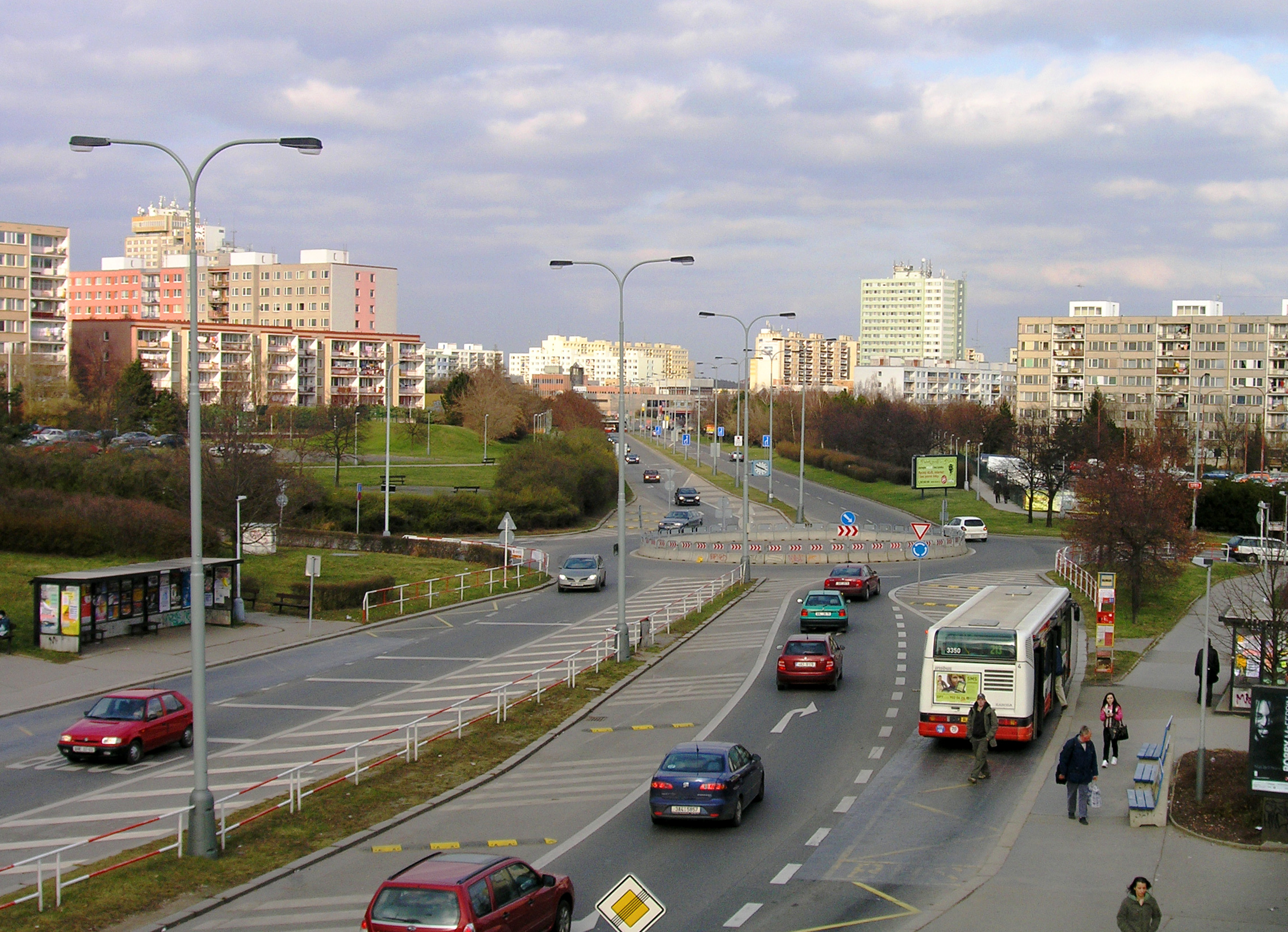 Opatovská street in Chodov, Prague